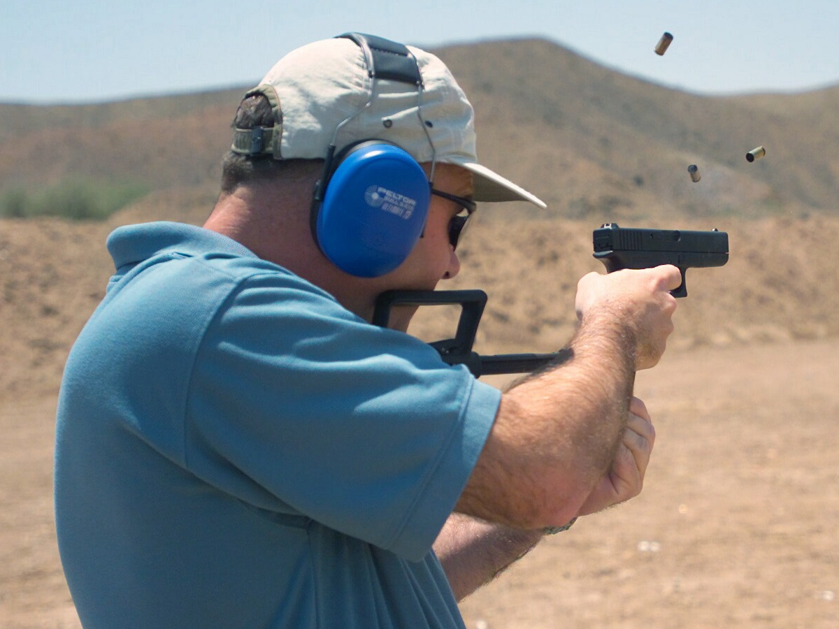 US Marine Corps Colonel James Cooney, Commander, Marine Corps Air Station Yuma, Arizona, fires a 9mm Glock 18 machine pistol while attending a period foreign military small arms weapons course at Adair MCAS) Yuma, Arizona. cropped